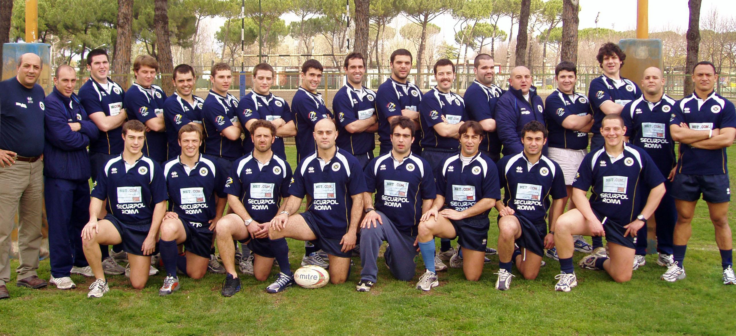 The squad of S.S. Lazio at the 2005-06 rugby union serie A championship